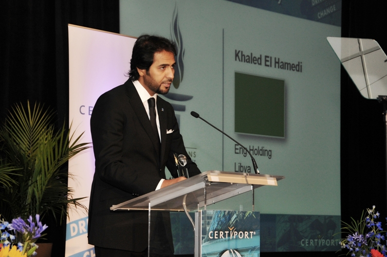 Awarded Champion of Digital literacy CDL 2009